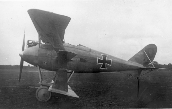 PictionID:43637498 - Catalog:16_004527 - Title:Friedrichshafen 1917 D type Nowarra photo - Filename:16_004527.TIF - - - - - - - Image from the Ray Wagner Collection. Ray Wagner was Archivist at the San Diego Air and Space Museum for several years and is an author of several books on aviation --- ---Please Tag these images so that the information can be permanently stored with the digital file.---Repository: San Diego Air and Space Museum